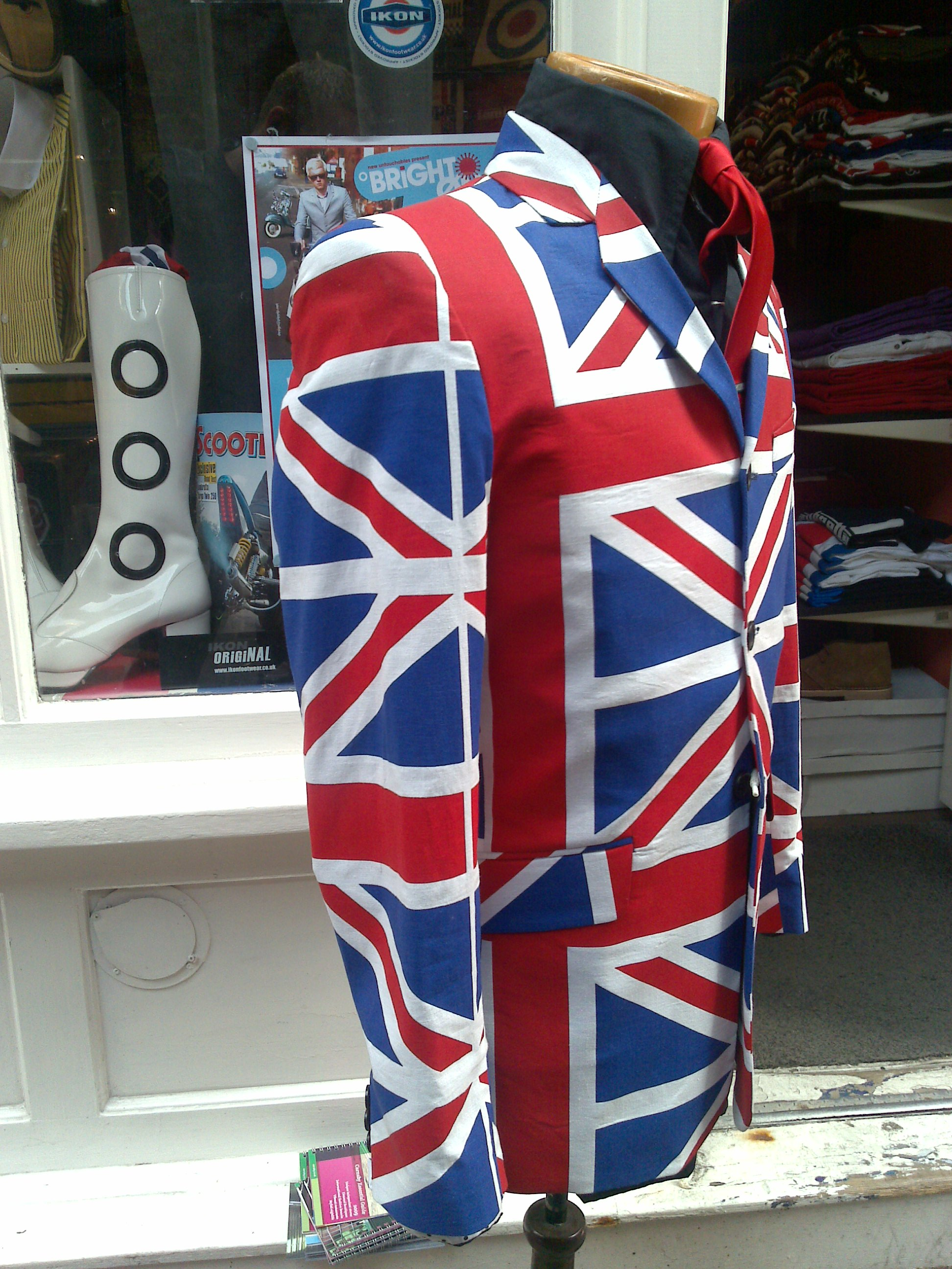 A Union jack jacket.